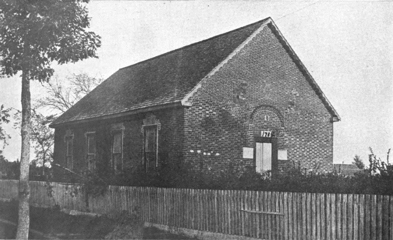 c. 1908. The oldest church building in North Carolina.